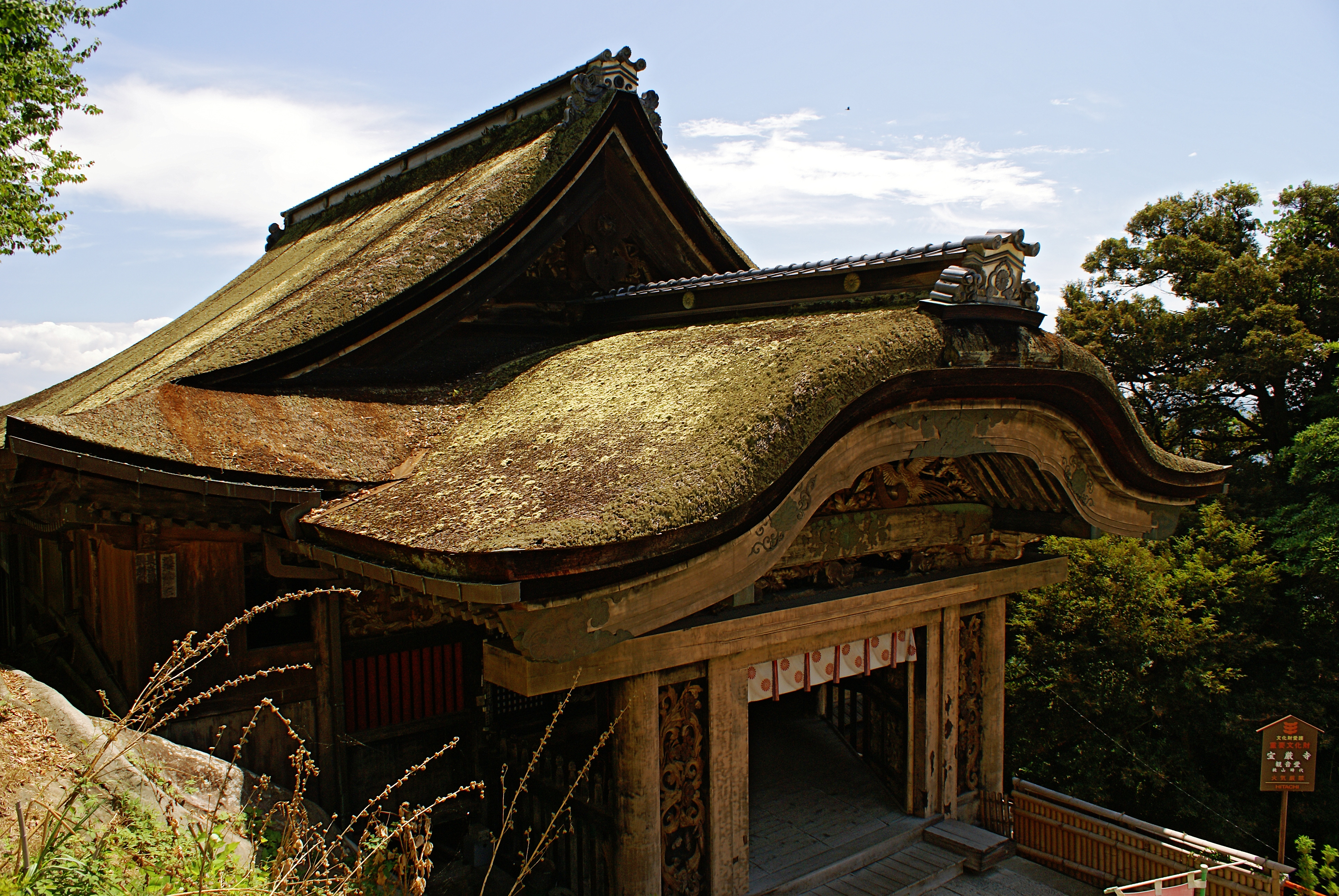 Hōgon-ji's Kara-mon is a Japan's National Treasure in Nagahama, Shiga prefecture, Japan. It was built at the Azuchi-Momoyama period.